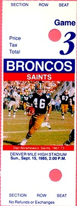 A ticket for a September 15, 1985 NFL game featuring the New Orleans Saints versus the Denver Broncos at Denver Mile High Stadium.